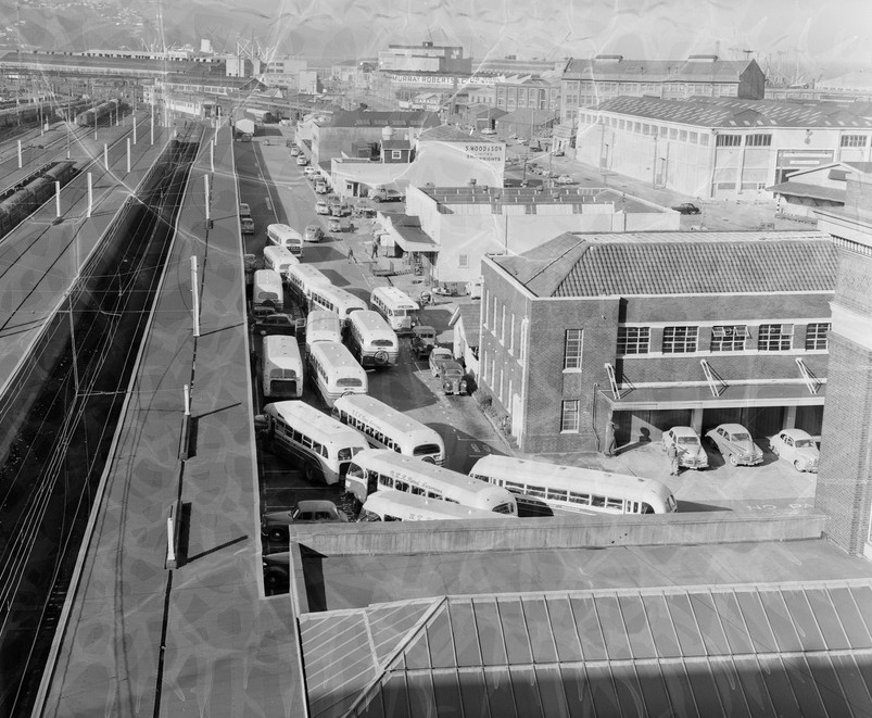 Buses at no. 9 Platform, Wellington Railway Station, 4 November 1957 View taken from 5th floor of Wgtn [Wellington] Stn [station] building down to no 9 platform showing buses used to transport passengers.